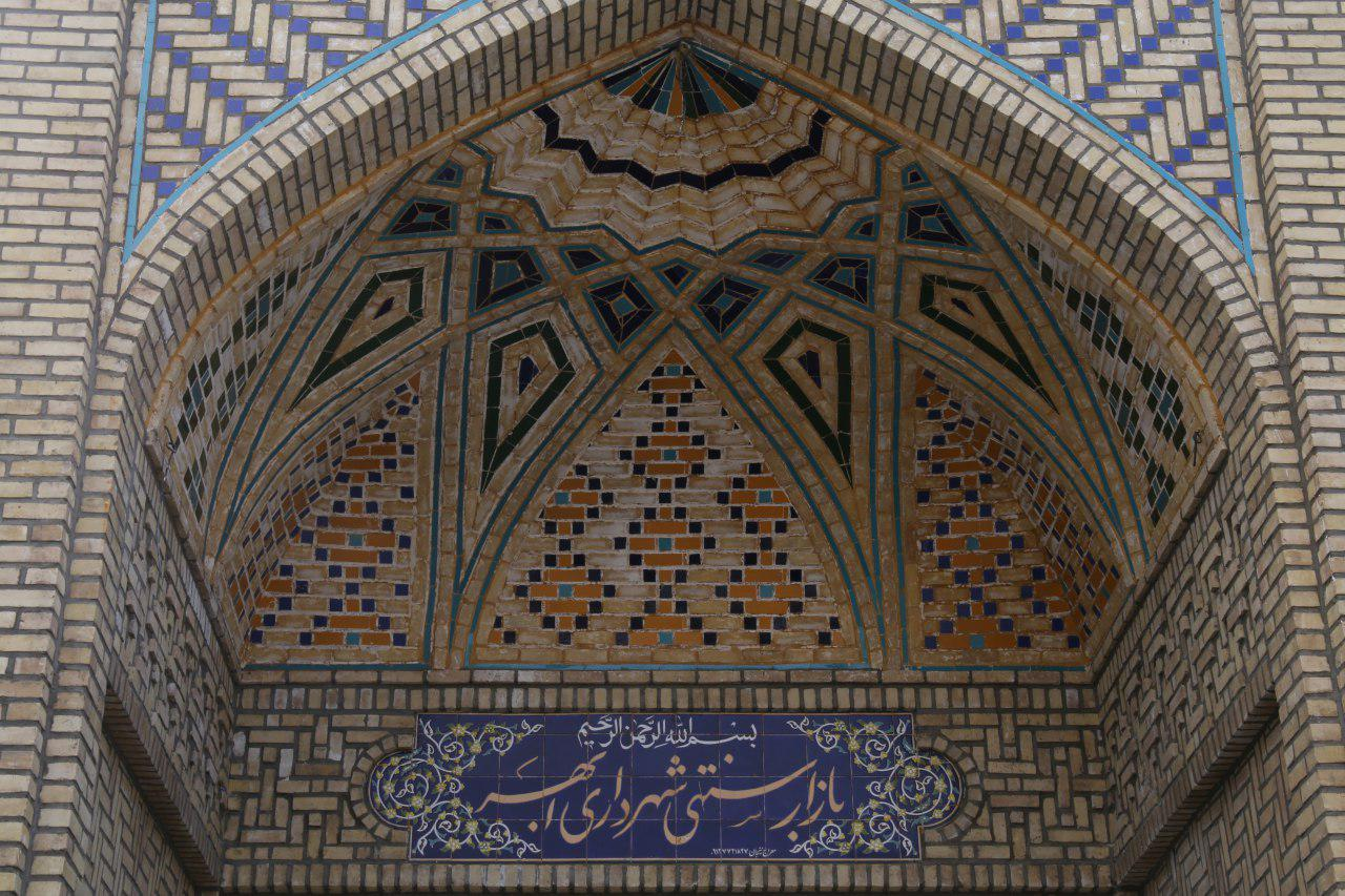 بازار بزرگ سنتی ابهر